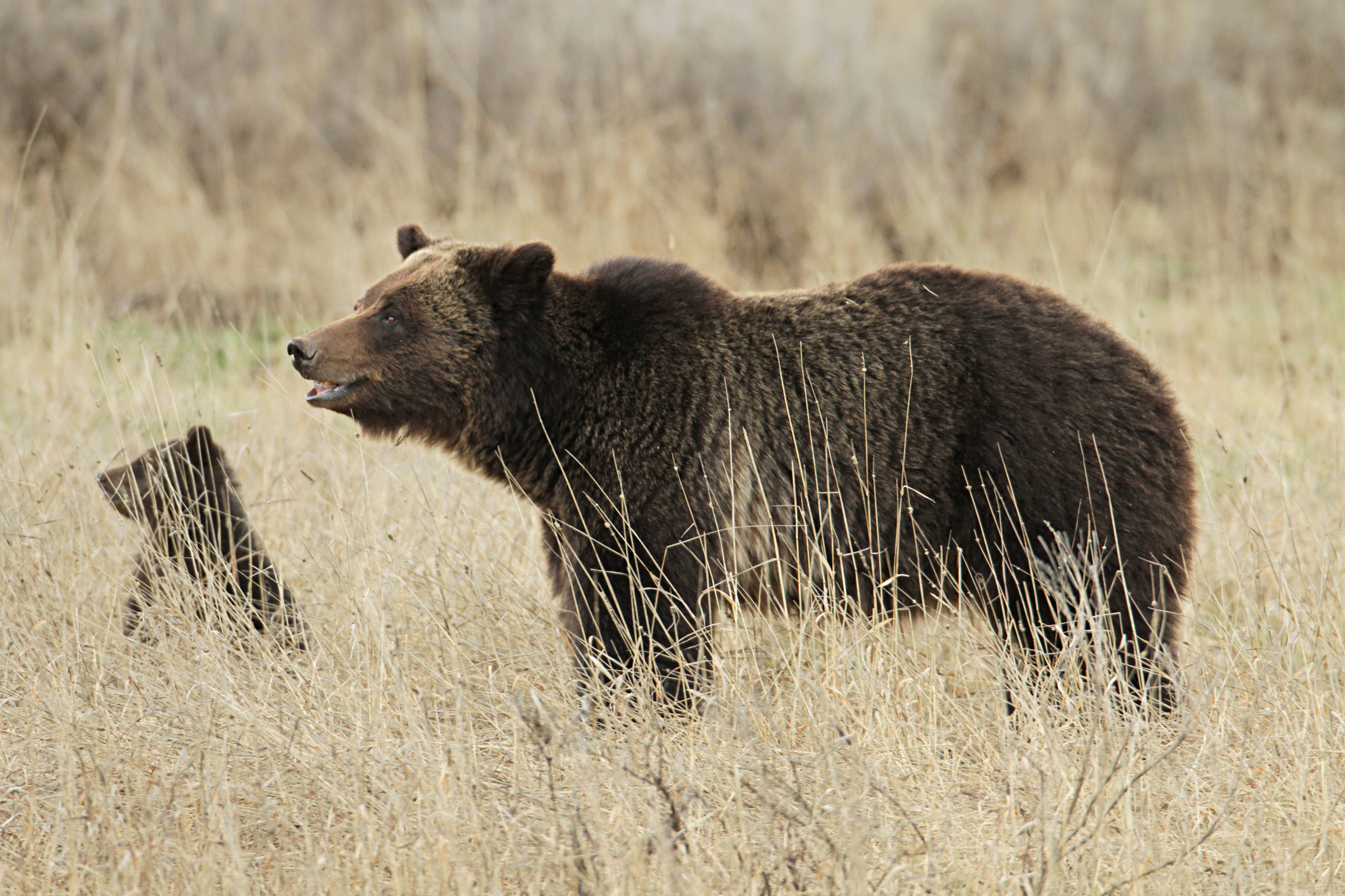 Grizzly sow and cub near Fishing Bridge; Jim Peaco; May 2015; Catalog #20090d; Original #IMG_0539